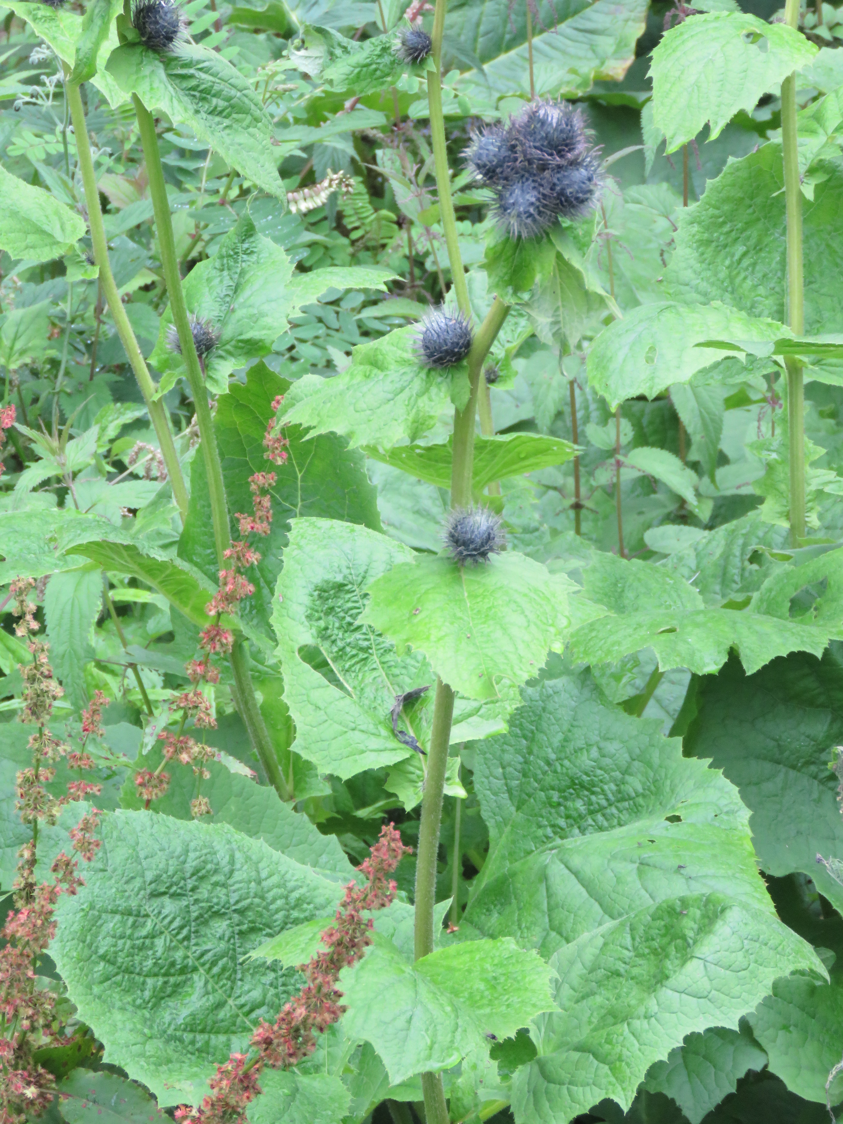 Photos from Valley of Flowers trip during LGFC - VOF 2019